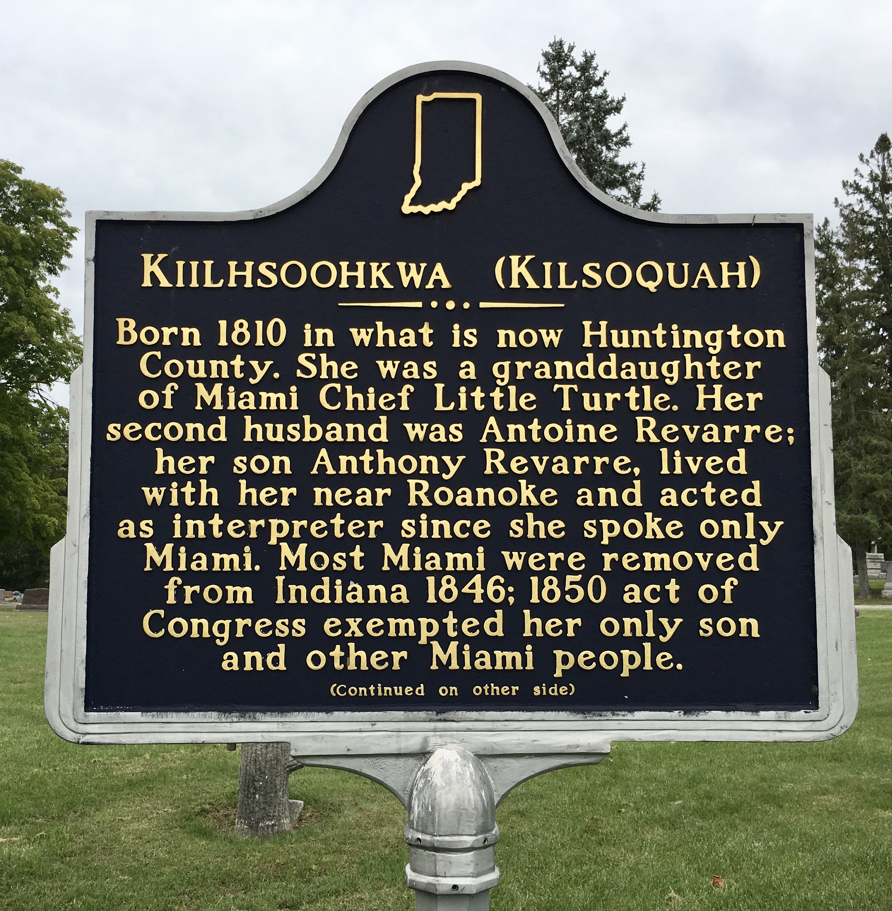 Historic sign at Glenwood Cemetery, Roanoke, Indiana memorializing and celebrating Kilsoquah's life.